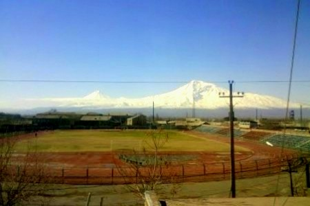 Artashat Cirty Stadium, Armenia.